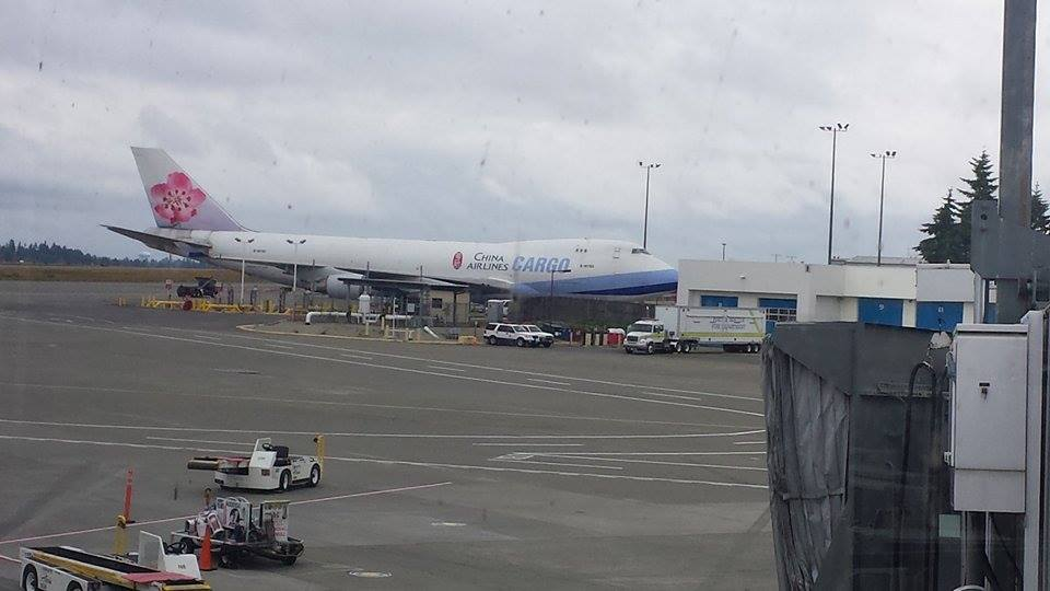 Boeing 747 at Seattle Tacoma Other information It's a Boeing!